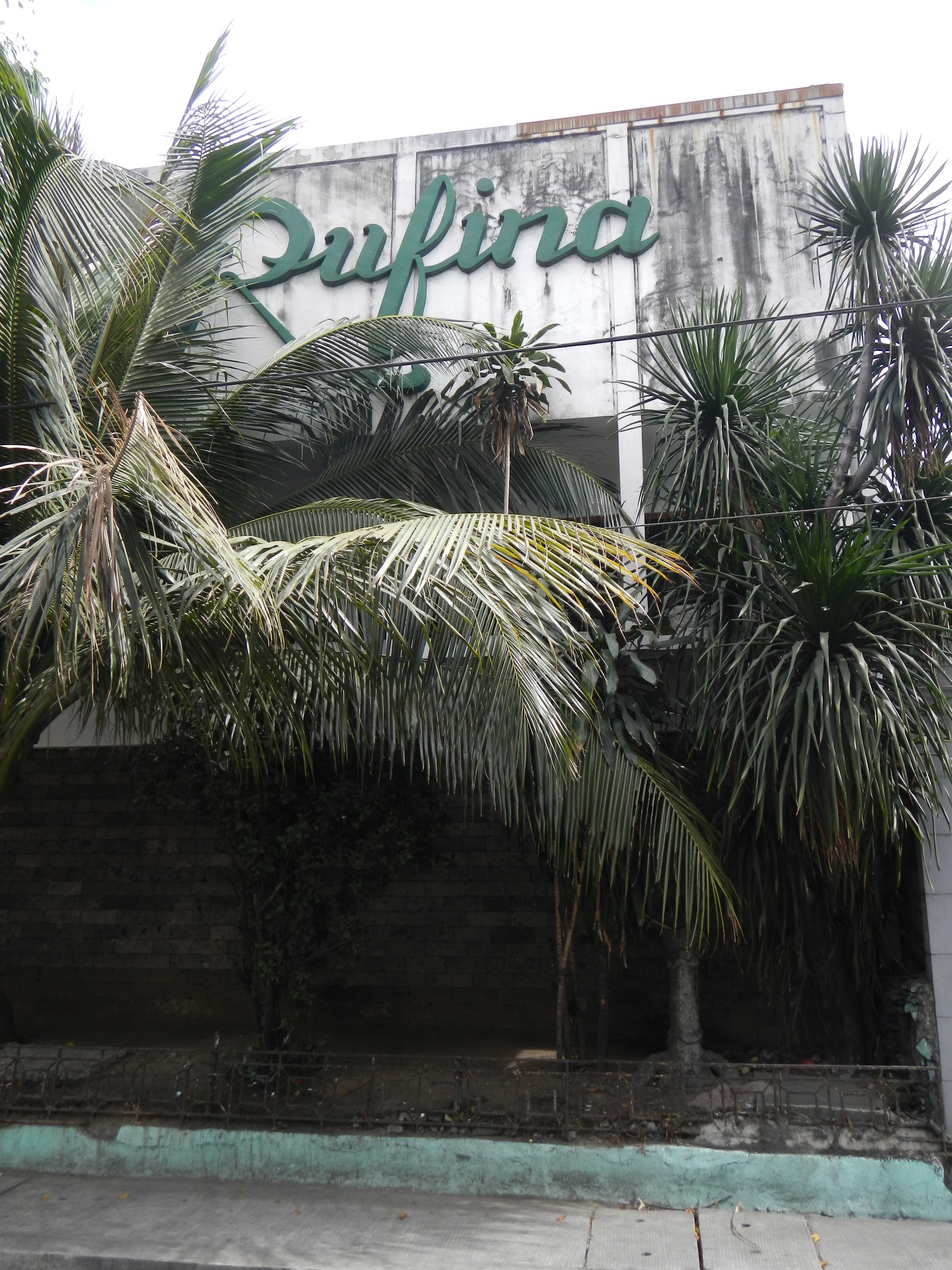 Rufina Patis & Bagoong Factory (Malabon City) Food and Foodstuff 290-C, C. Arellano Street, Malabon, 1470 Metro Manila Barangay Baritan,Malabon City.